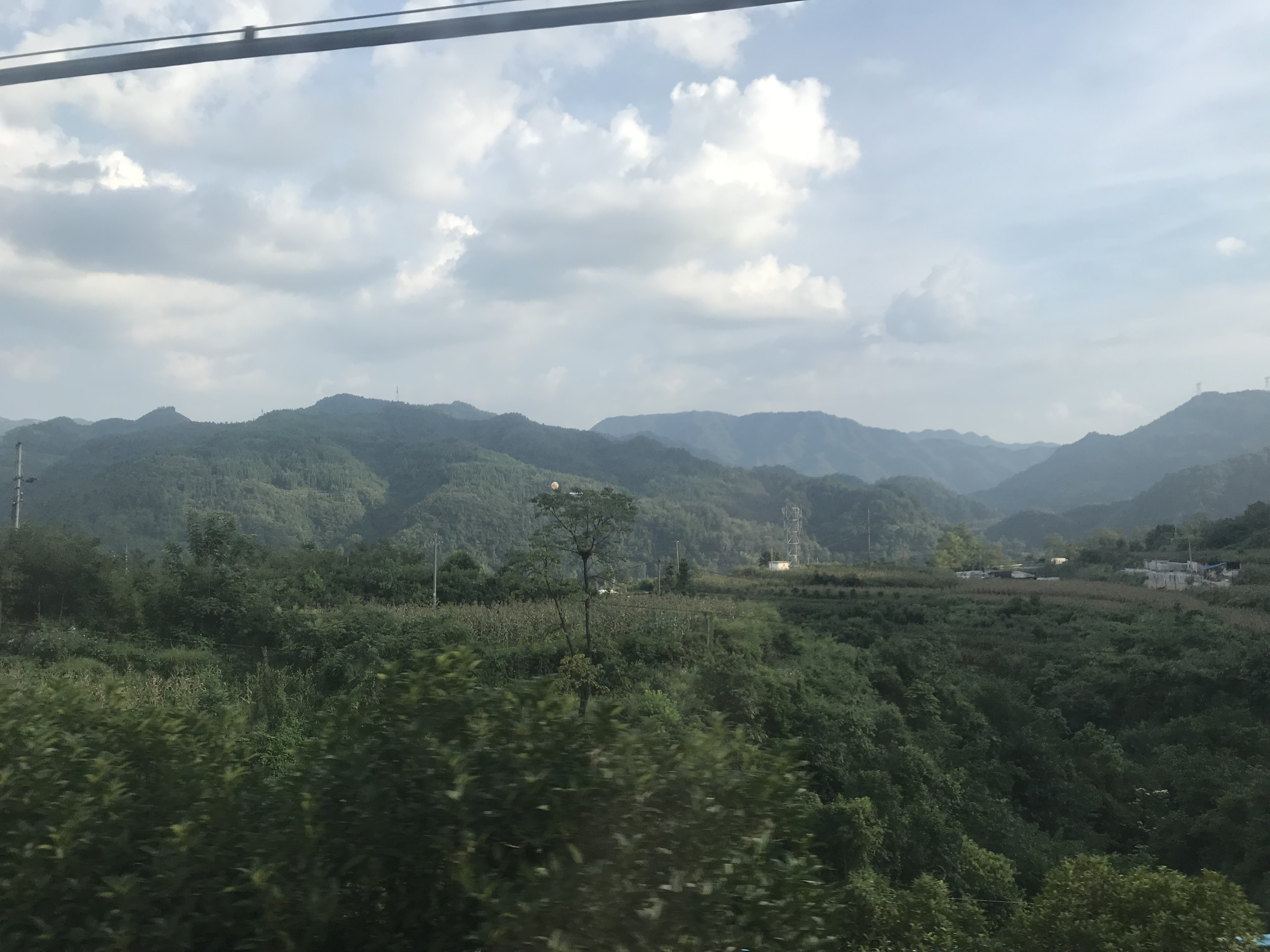 201908 Welcome Sign of Huangsi, Fuquan